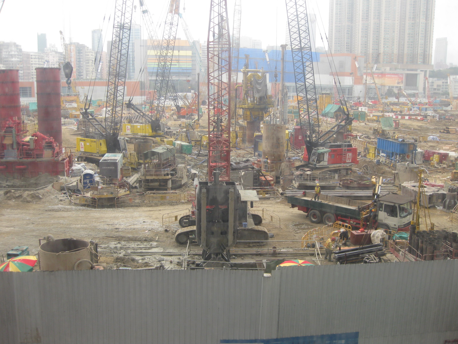 Former Wui Cheung Road, which is now being demolished